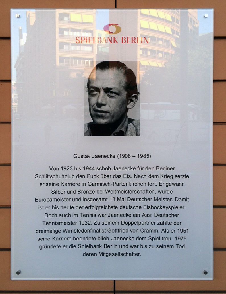 Memorial plaque, Gustav Jaenecke, Marlene-Dietrich-Platz 1, Berlin-Tiergarten, Germany